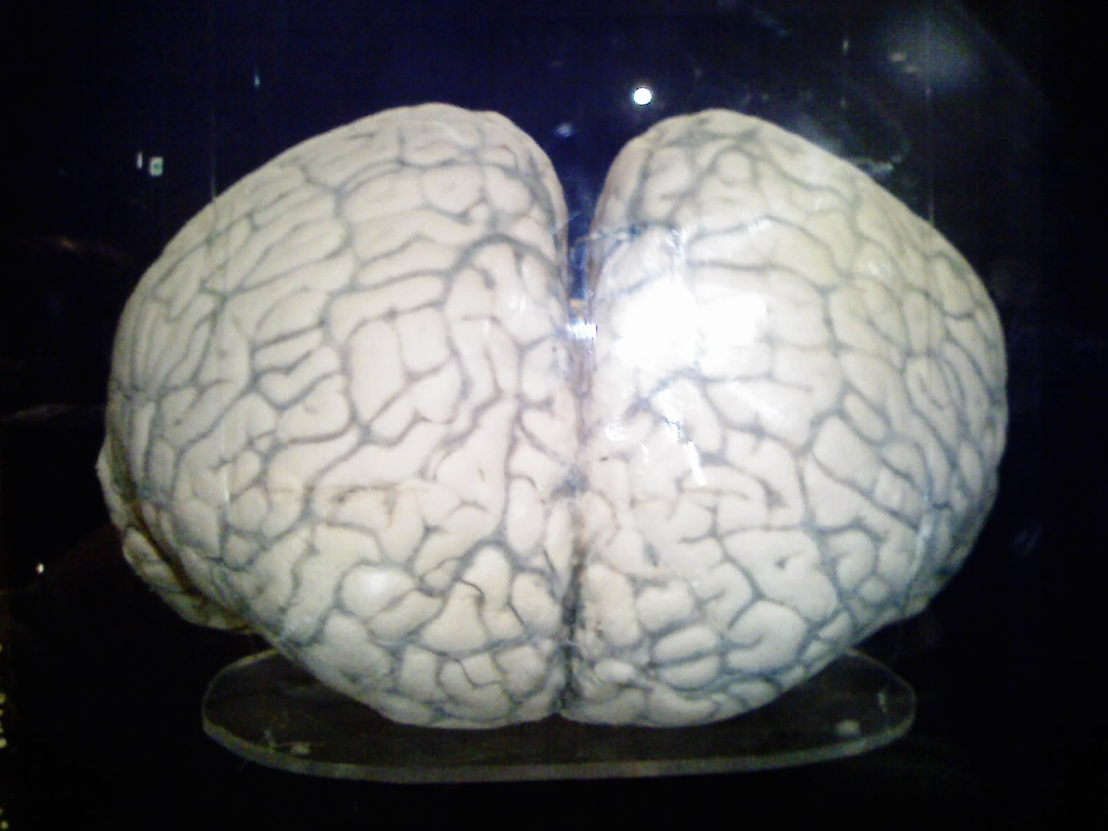 Brain of Pacific White-sided dolphin (lagenorhynchus obliquidens), taken at Okinawa Churaumi Aquarium. Body length: ca200cm, body mass:90kg, brain mass 1100g.